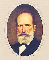 Edward Clark, 8th Governor of the State of Texas.